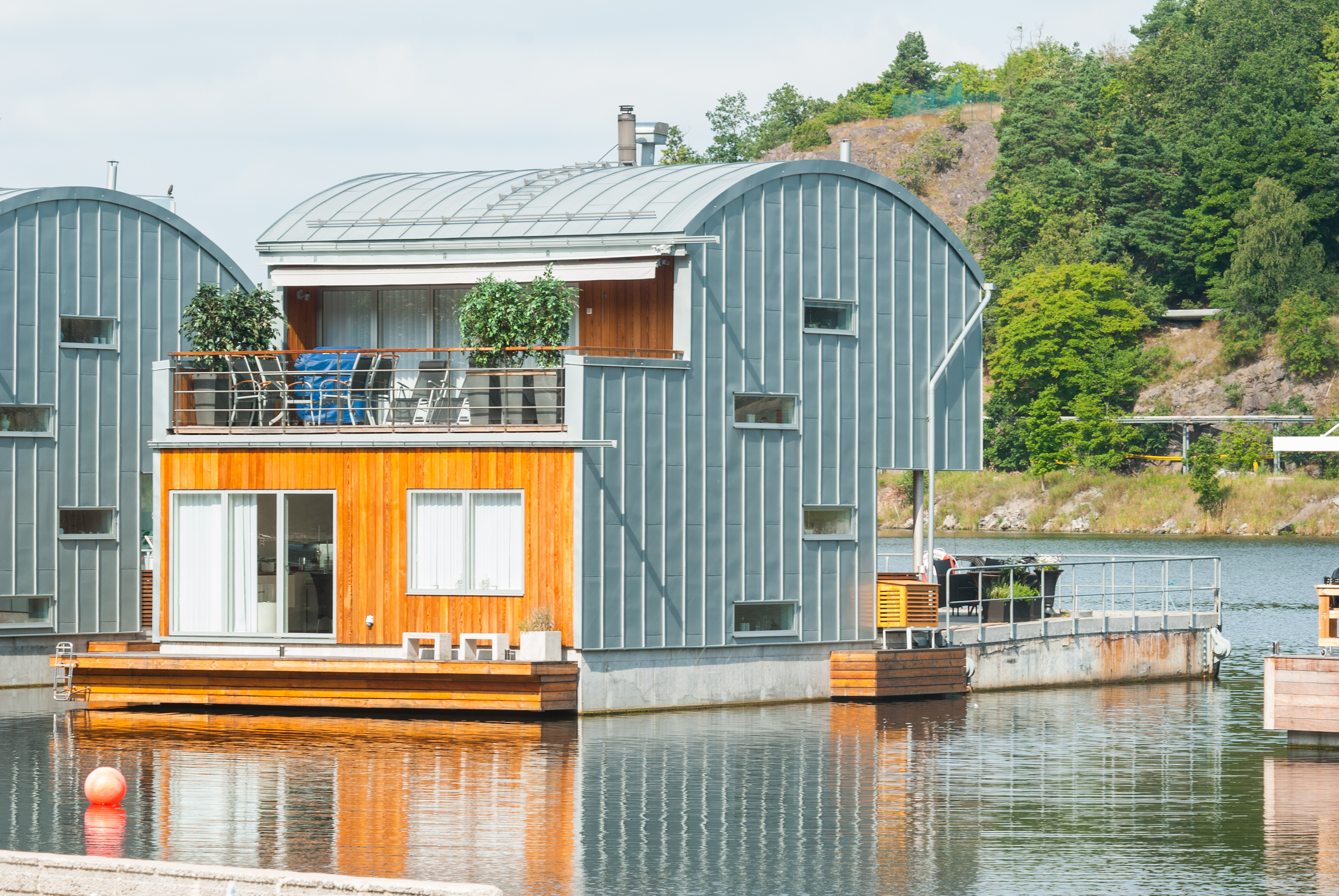 Marinstaden, July 2012.